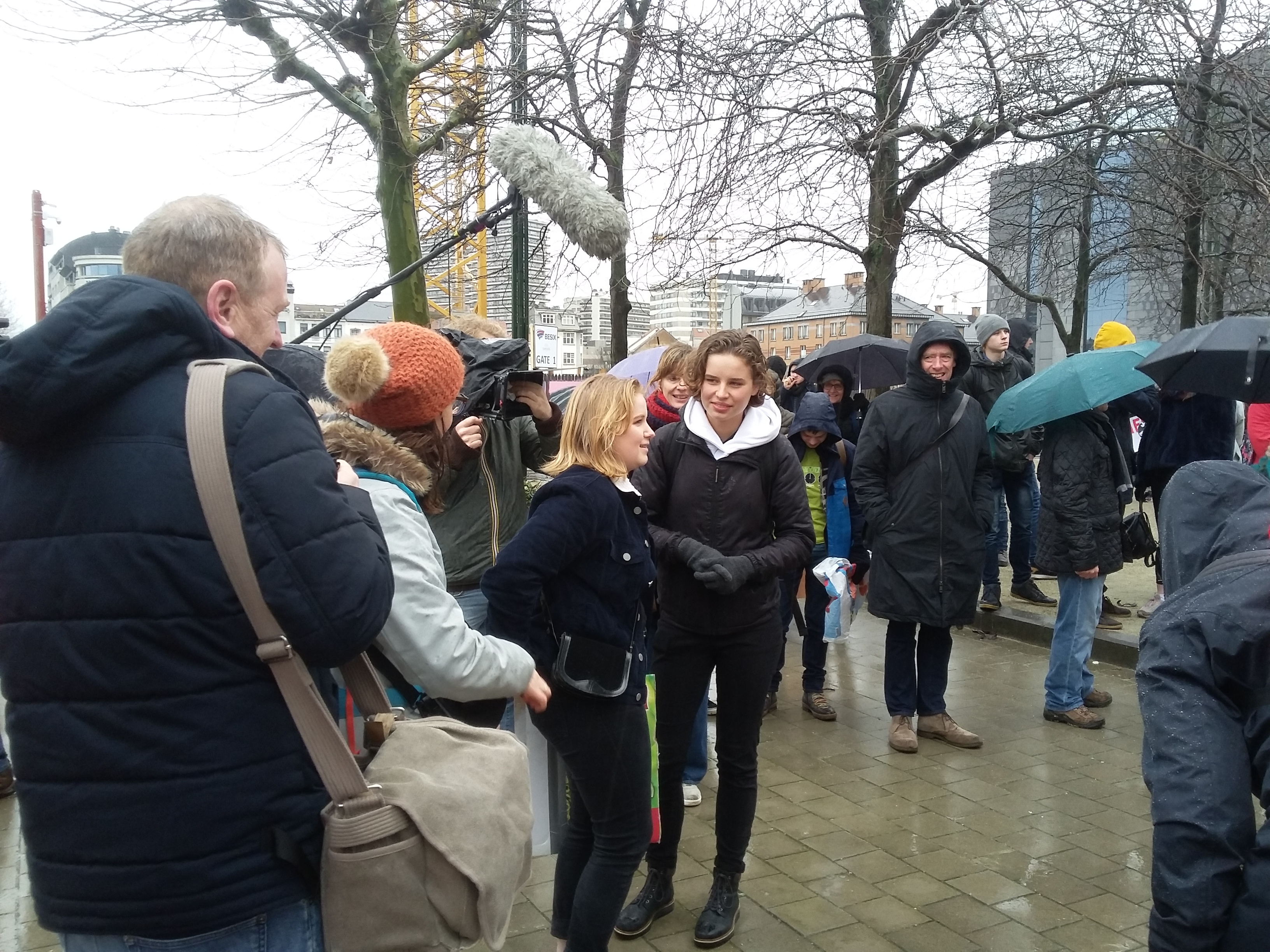 Demonstration for climate in Brussels, on Sunday 27 January 2019.